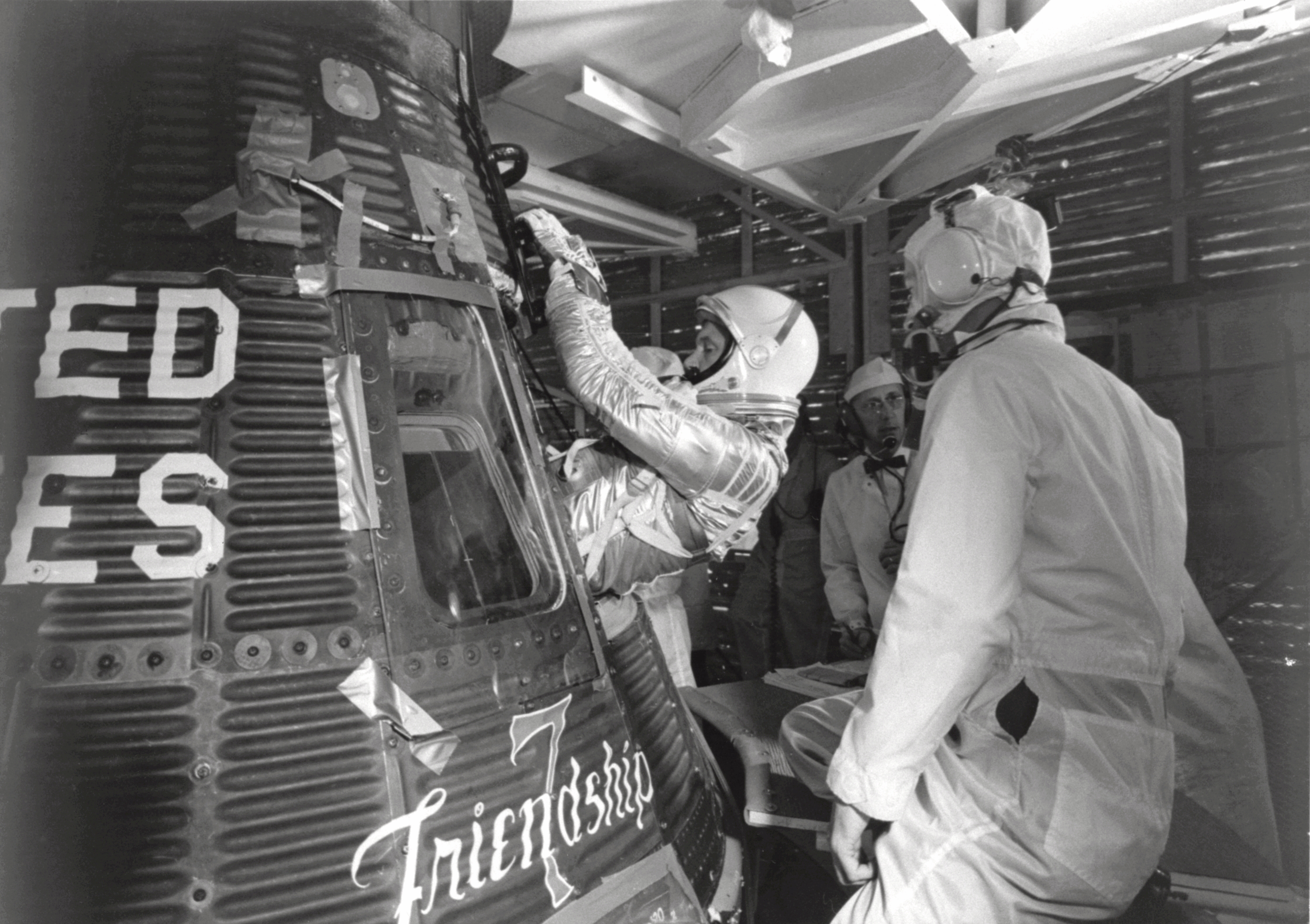 Astronaut John H. Glenn Jr. enters his Mercury capsule, "Friendship 7" as he prepares for launch of the Mercury-Atlas rocket. On February 20, 1962 Glenn lifted off into space aboard his Mercury Atlas 6 (MA-6) rocket and became the first American to orbit the Earth. After orbiting the Earth 3 times, Friendship 7 landed in the Atlantic Ocean 4 hours, 55 minutes and 23 seconds later, just East of Grand Turk Island in the Bahamas. Glenn and his capsule were recovered by the Navy Destroyer Noa, 21 minutes after splashdown.